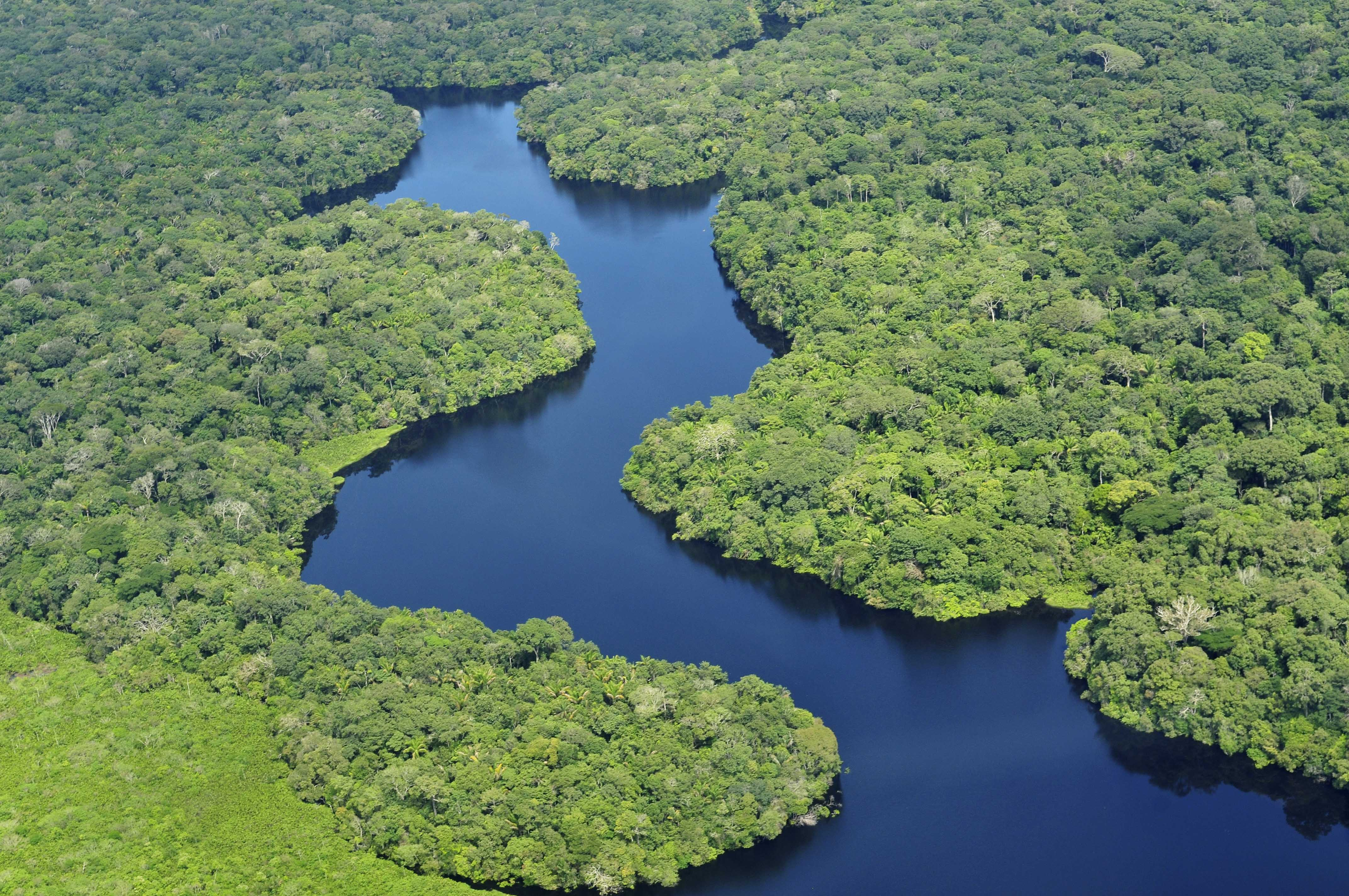 Pic by Neil Palmer (CIAT). Aerial view of the Amazon Rainforest, near Manaus, the capital of the Brazilian state of Amazonas.